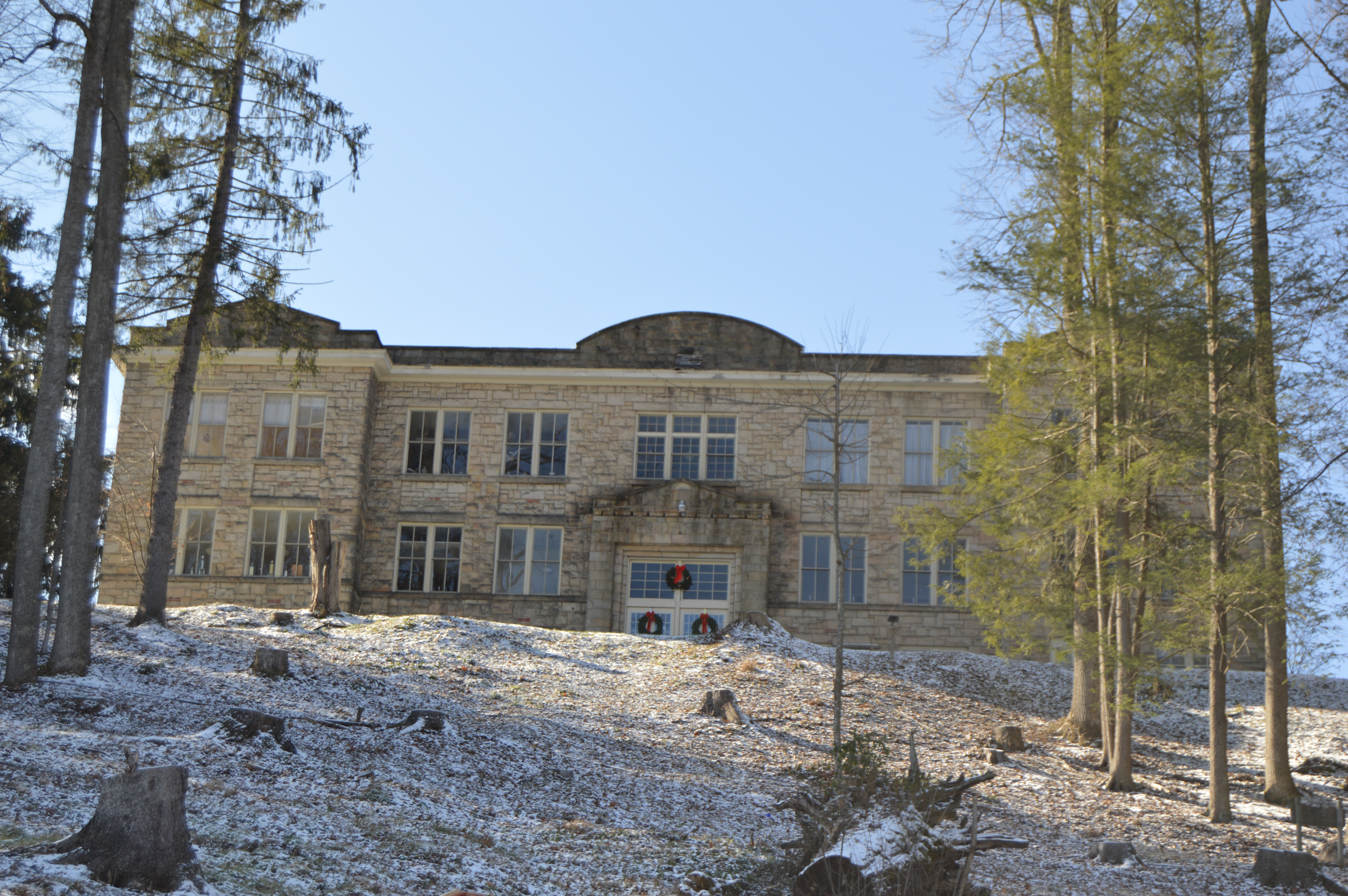 Front of the former Nicholas County High School, located off W. Main Street in Summersville, West Virginia, United States. Built in 1913, it is listed on the National Register of Historic Places.